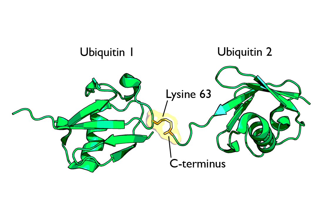 A cartoon representation of a lysine 63-linked diubiquitin molecule. The two ubiquitin chains are shown as green cartoons with each chain labelled. The components of the linkage are indicated and shown as orange sticks. Image was created using PyMOL from PDB id 2jf5.